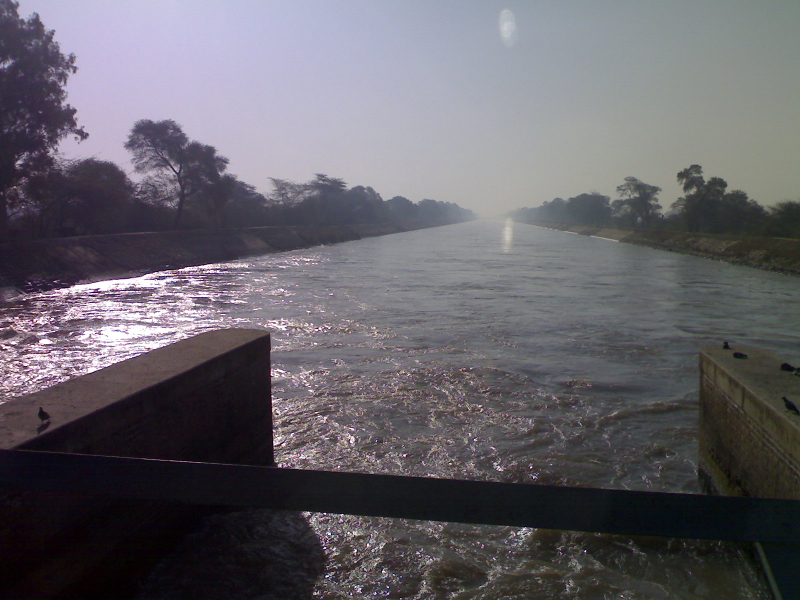 I (Wikiuser:Shemaroo who is Sivendersingh) have uploaded this image.This image is taken from a bridge on Indira Gandhi Canal at Lohgarh, teh:-Mandi Dabwali, district:-Sirsa,Haryana.It is place where waters of Indira Gandhi Canal from Punjab into Haryana. Shemaroo (talk) 13:48, 16 February 2012 (UTC)